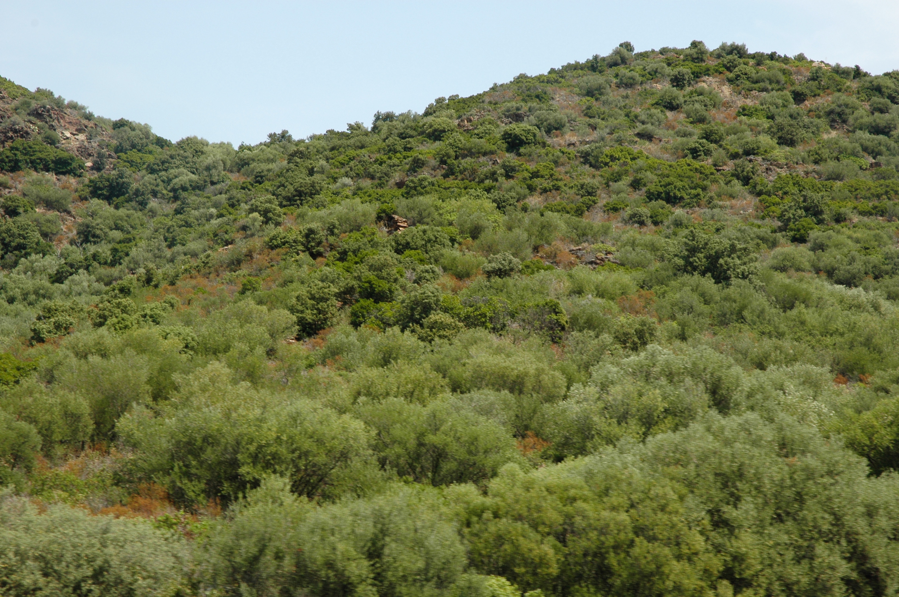 Maquis in Balagne, Haute-Corse, on road N197 between Ponte Leccia and Île Rousse